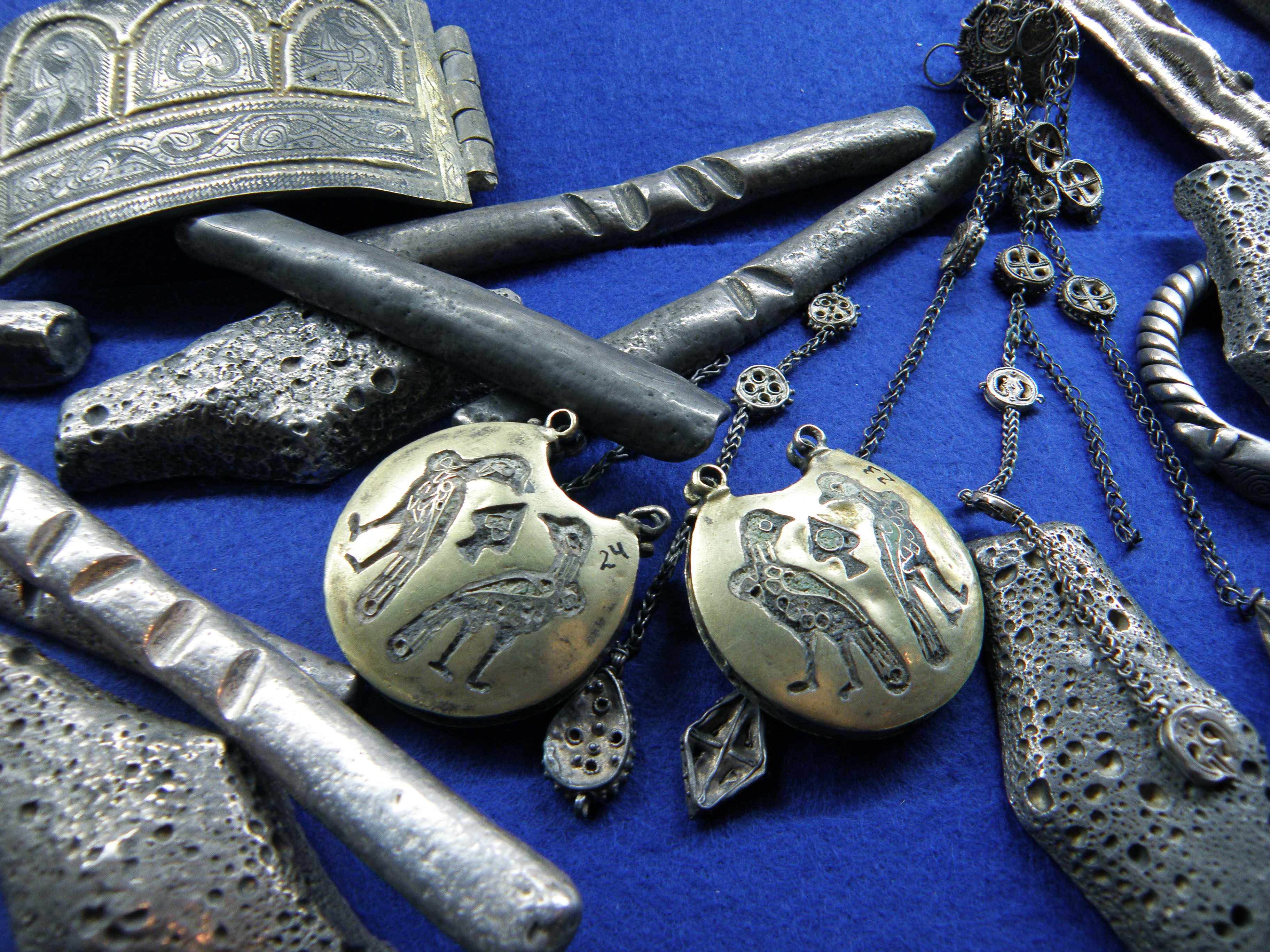 Silver Adornments of the Vishchyn Treasure Trove of the 13th century/ Museum of the Historical Faculty of the Belarusian State University